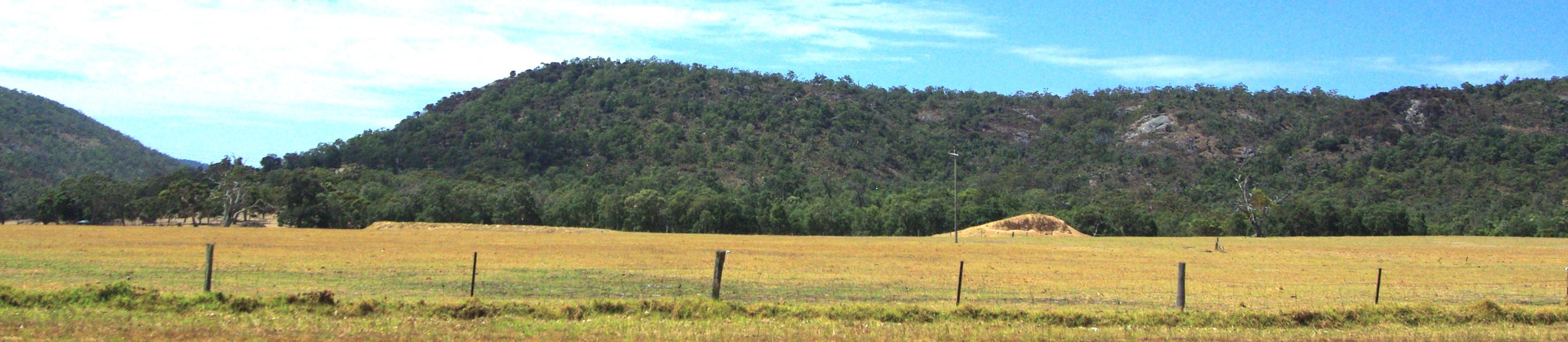 Darling Scarp from South West Highway between Pinjarra and Armadale